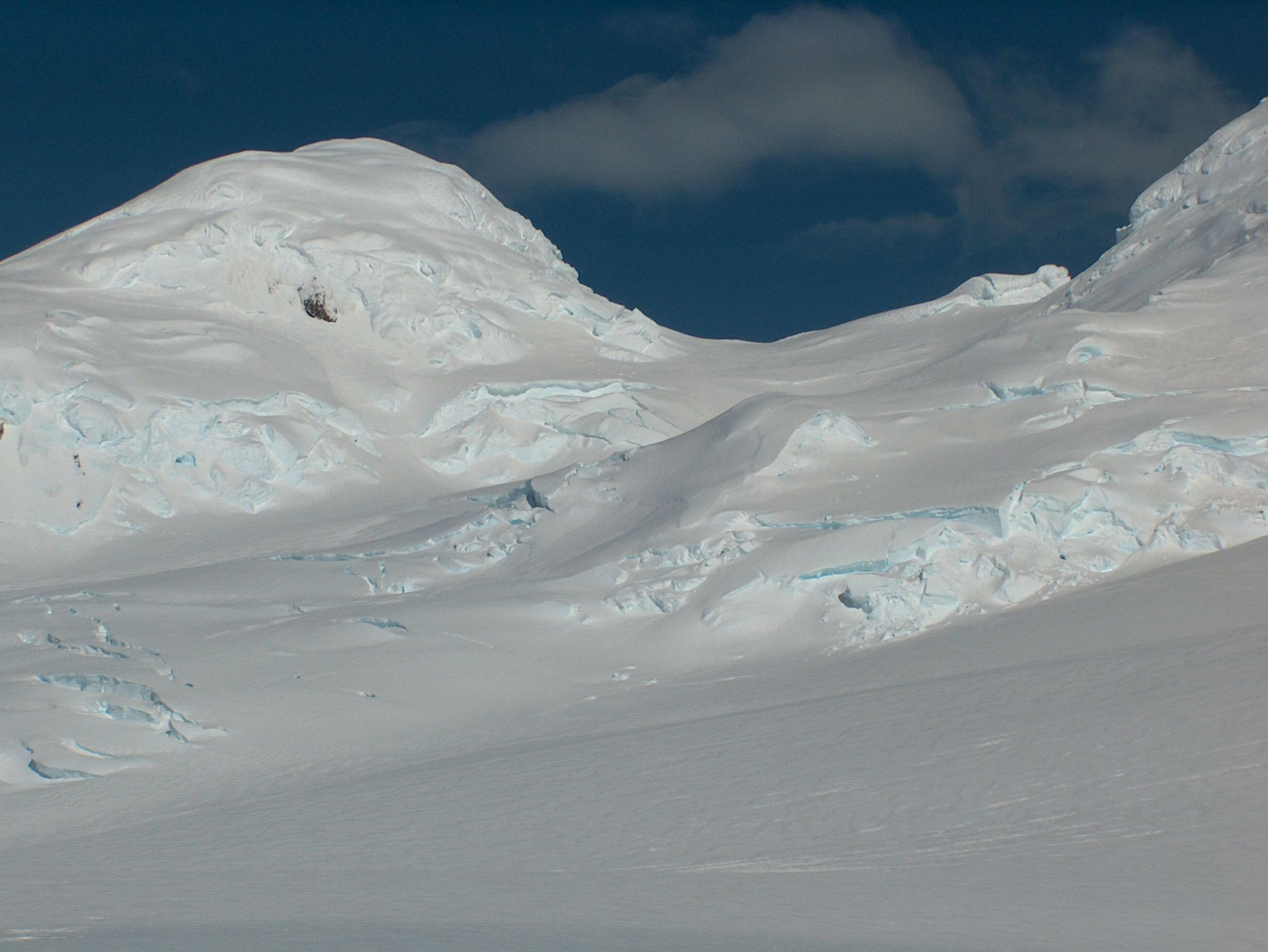 Catalunyan Saddle in Tangra Mountains, Livingston Island in Antarctica, with Lyaskovets Peak on the left.